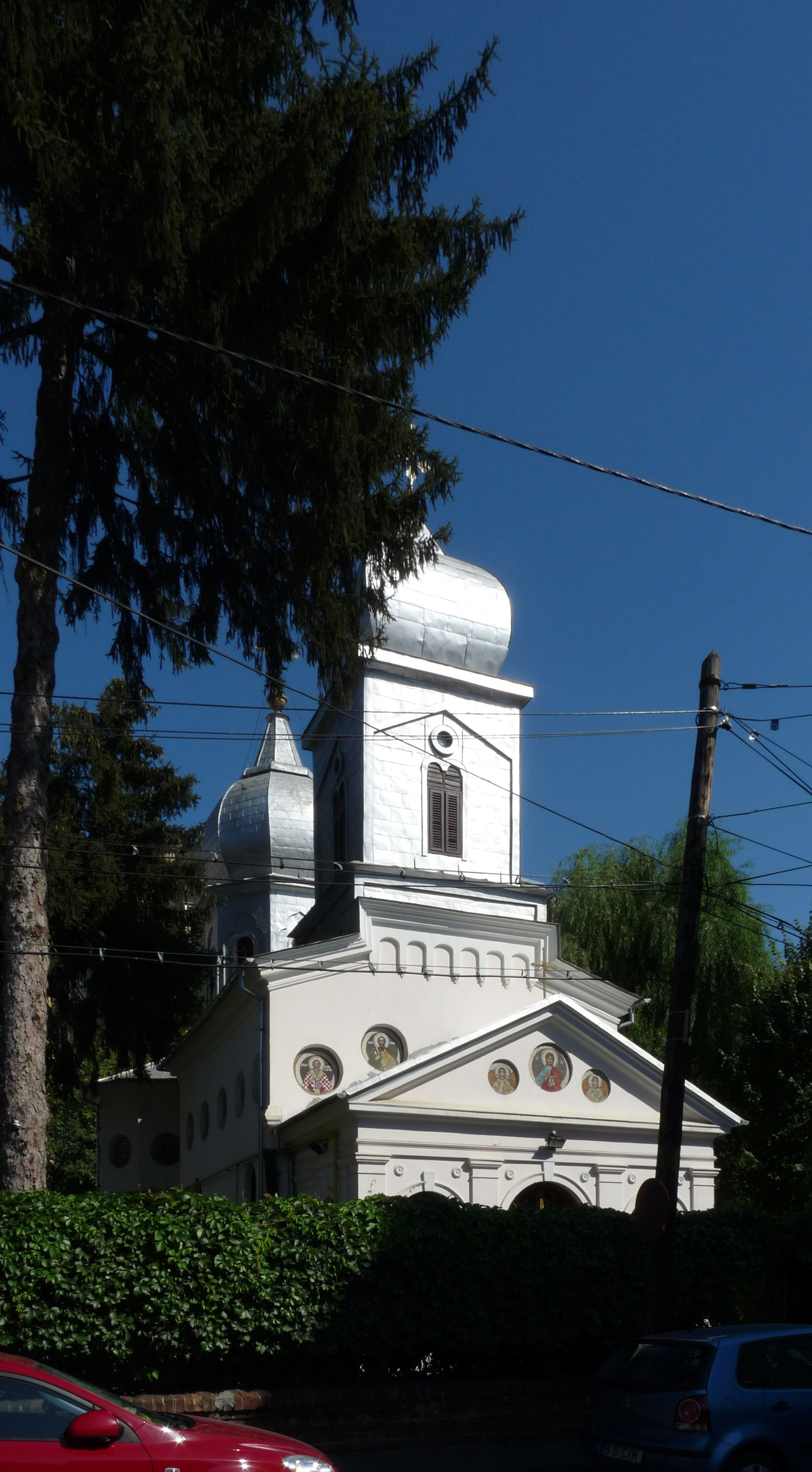 Holy Voivods' (Archangels Michael and Gabriel) "Oțetari" church, Strada Oţetari, nr. 4, Bucharest, RomaniaRomână: Biserica Sfinții Voievozi - „Oțetari” - , Strada Oţetari, nr. 4, România